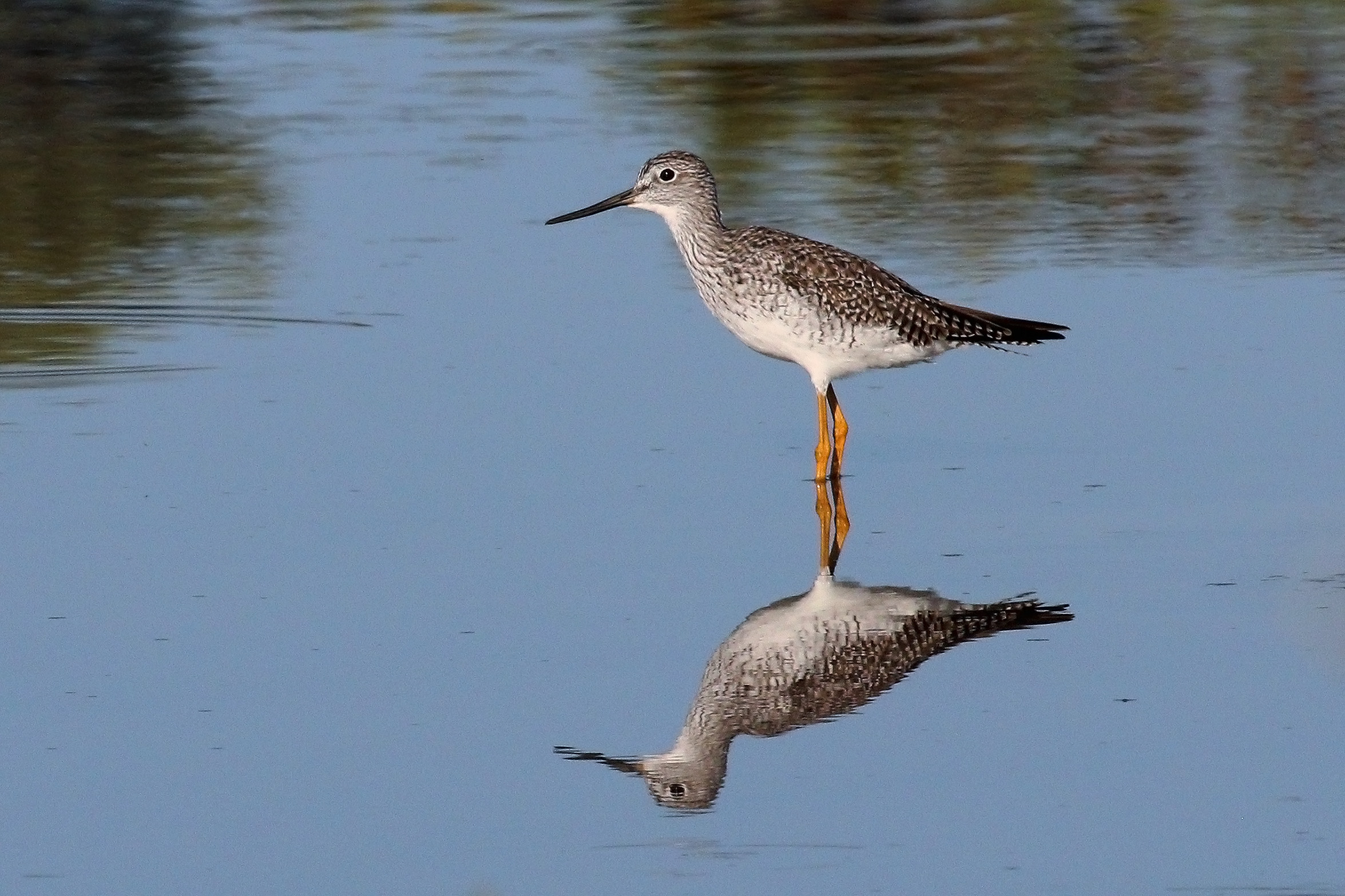 Greater yellowlegs (Tringa melanoleuca), Cayo Coco, Cuba